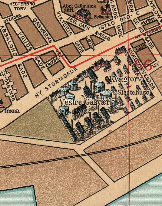 Map detail showing the site where Halmtorvet ' then part of Ny Stormgade - is now located in the Vesterbro district of Copenhagen, Denmark. Several of the other streets have also changed name, including Knudsgade which is now called Rskildsgade.